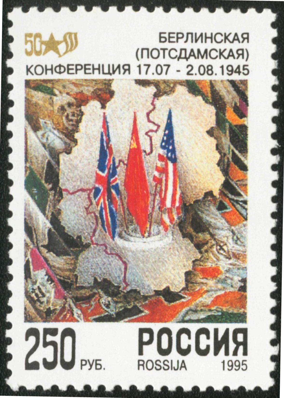 Stamp of Russia. 50th anniversary of the Victory in the Great Patriotic War. The Potsdam Konference (1945), 1995, 250 rubles, CPA #20?